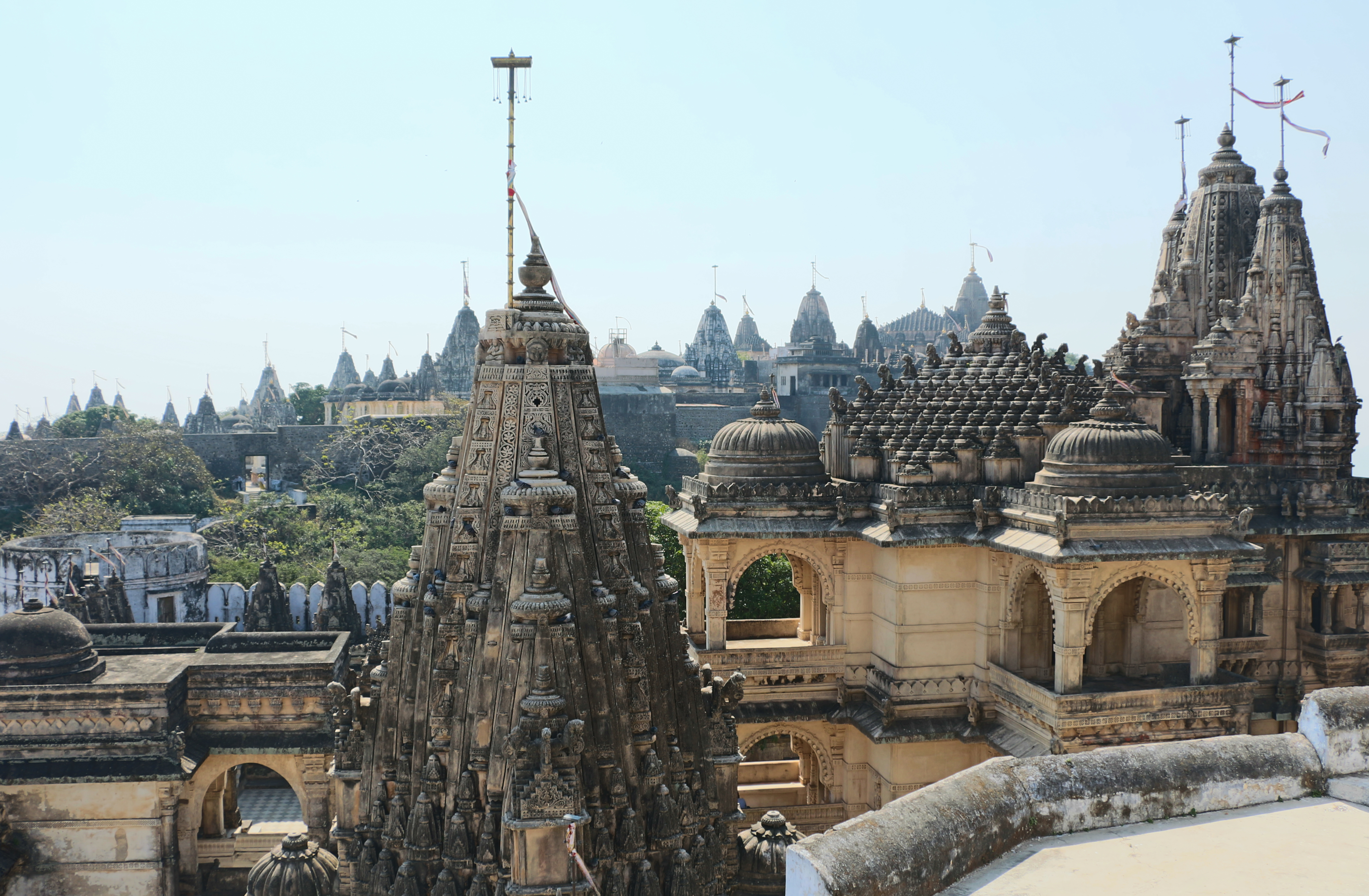 Balabhai Tonk, Palitana temples complex, Palitana, India